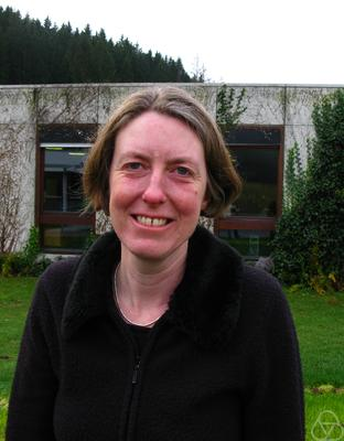 Picture of Gwyneth Stallard